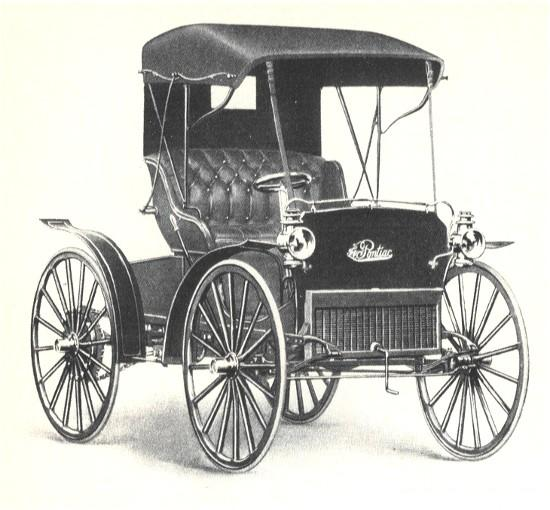 Pontiac High Wheel Runabout. 2 cylinder opposed engine, 12 hp (manufacturer claimed 15), 120.3 c.i., cost $600. Built by the Pontiac Spring and Wagon Works, Pontiac, Mich. in 1908 only. This is a far ancestor of GM's Pontiac.